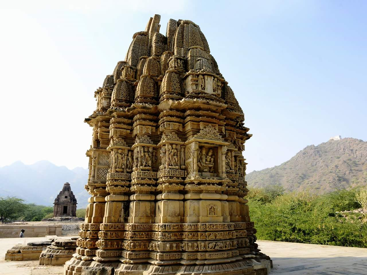 The three temples that have withstood the ravages of time are on three different podiums. Here we get a glimpse of two of them in perspective against the backdrop of an unusual and beautiful arid landscape.